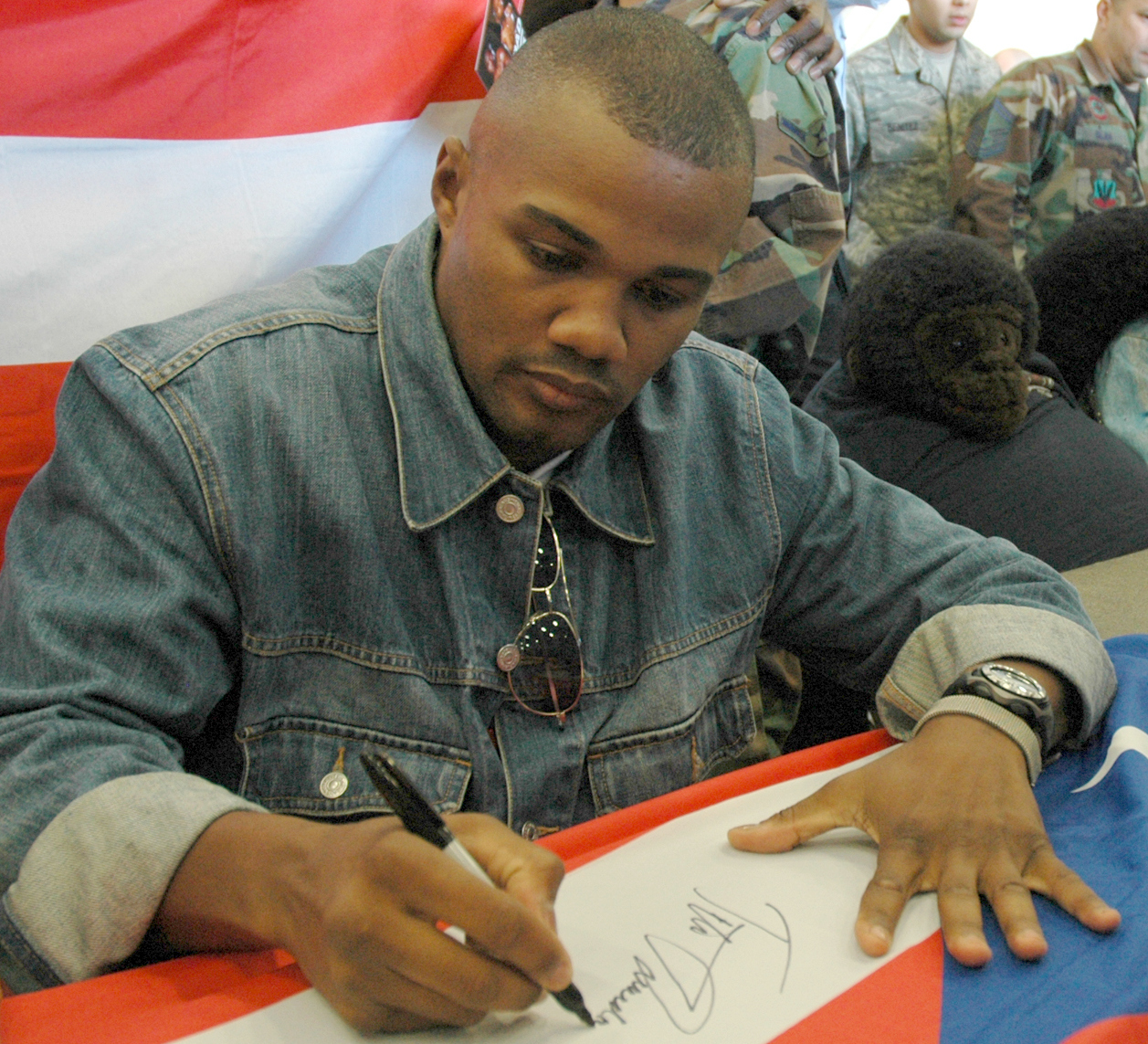 EGLIN AIR FORCE BASE, Fla. -- Felix "Tito" Trinidad signs an autograph on a Puerto Rican flag Dec. 4. Don King, Roy Jones Jr. and Trinidad made a visit to Eglin Airmen to sign autographs. Jones and Trinidad, with a combined 13 world titles, will meet in a much anticipated fight Jan. 19 at Madison Square Garden in New York City.